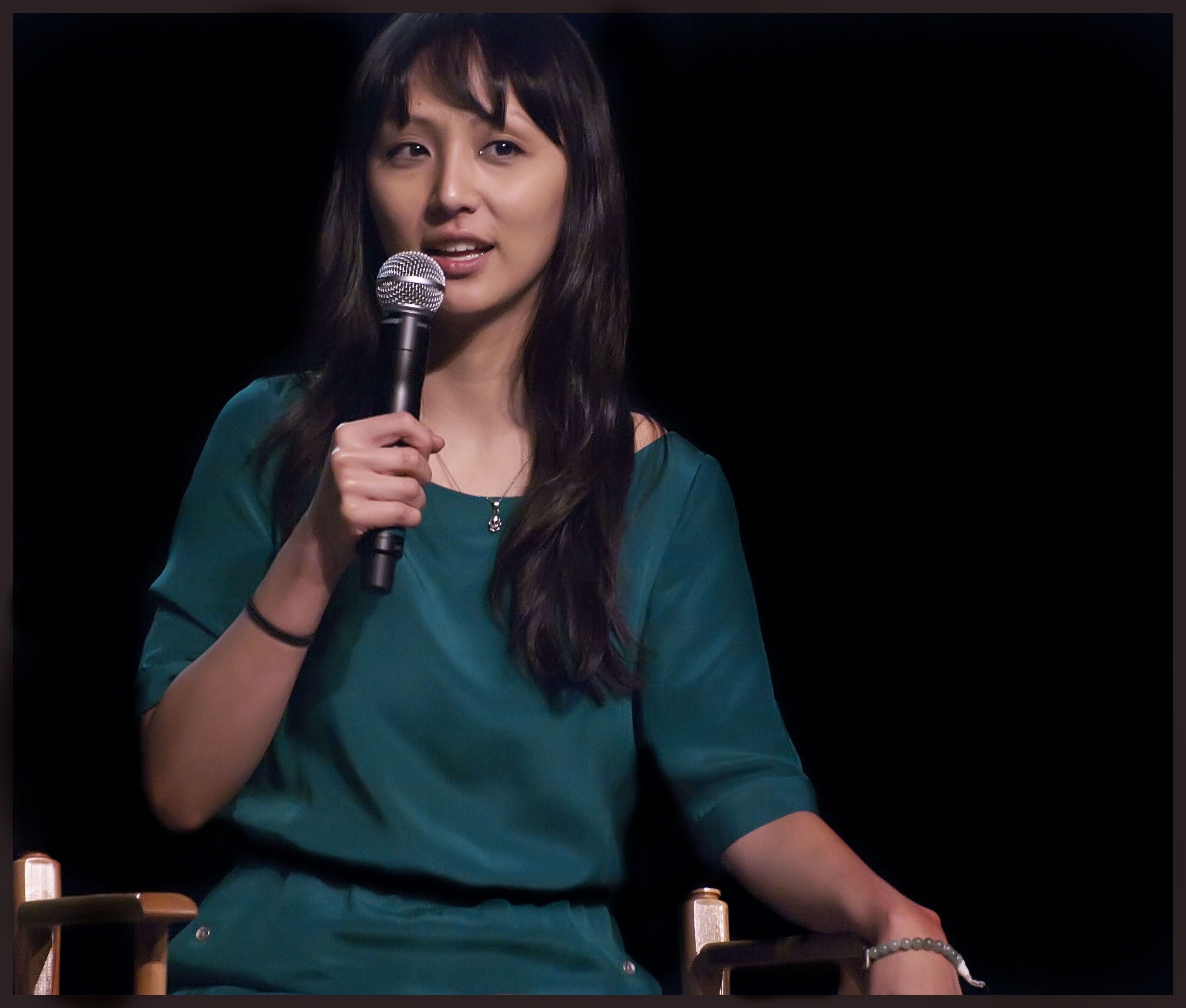 Linda Park at the Star Trek Convention, Las Vegas